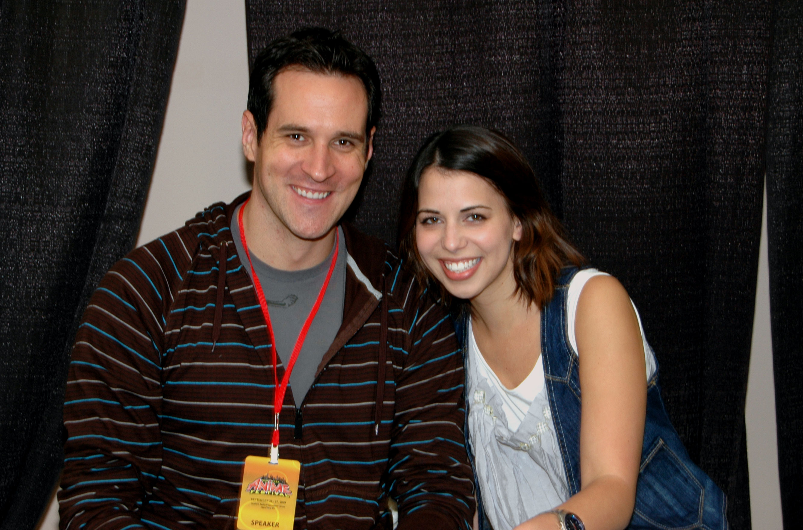 Travis Willingham and Laura Bailey at the New York Anime Festival in 2009.